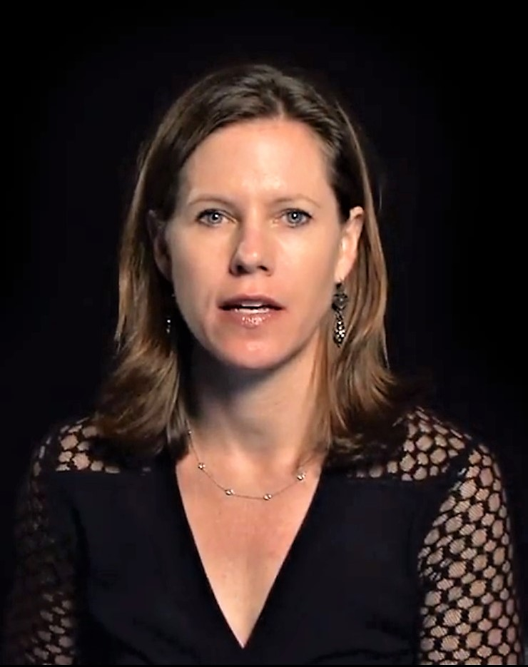 HIV Diagnosis by A Luetkemeyer, University of California San Francisco HIV Testing Annie Luetkemeyer, M.D. Associate Professor of Medicine, HIV/AIDS Division University of California, San Francisco (UCSF), USA